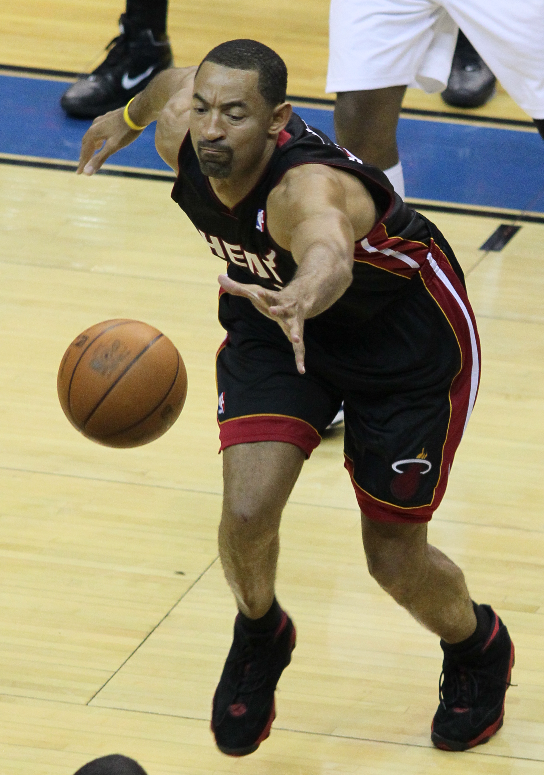 Washington Wizards v/s Miami Heat December 18, 2010